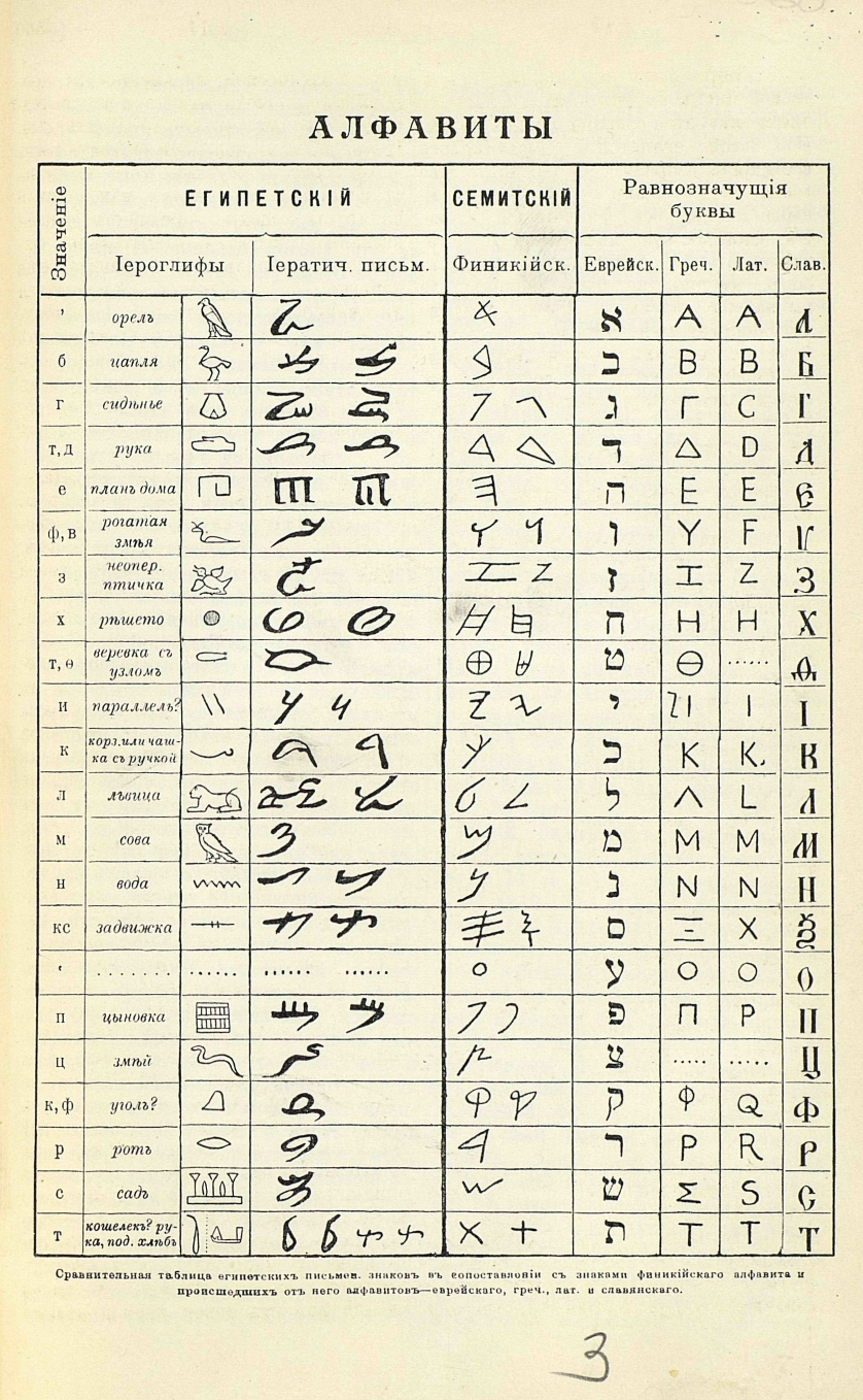 Alphabet. Illustration from Orthodox Theological Encyclopedia (1900—1911)